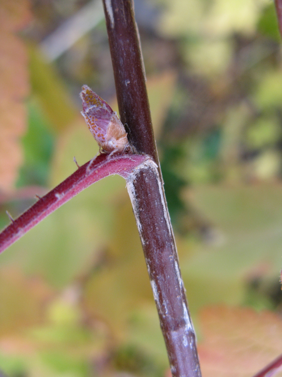 Ribes americanum, leaf base and axillary bud in late autumn